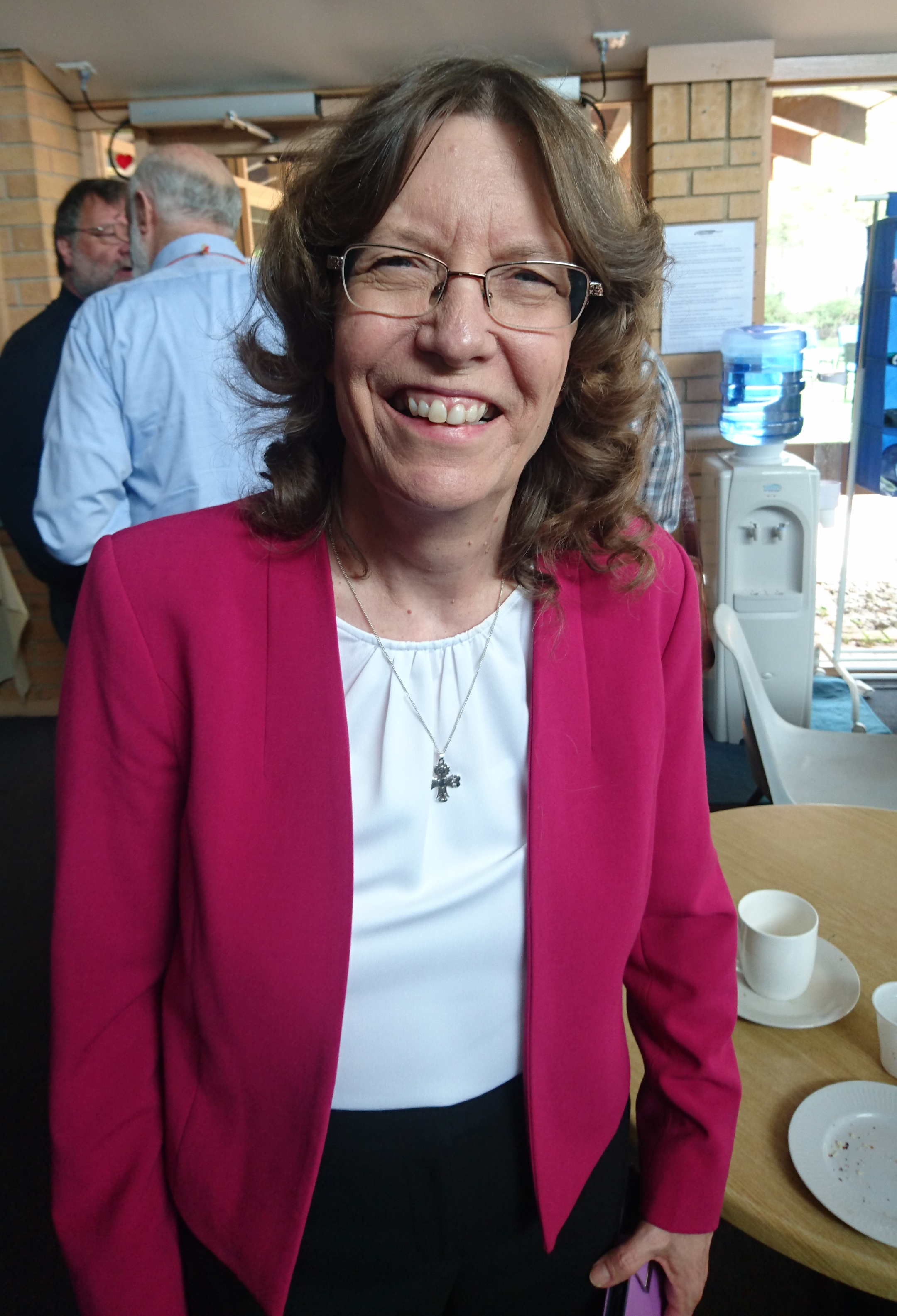 Deidre Palmer, President of the Uniting Church in Australia, 2020-02-23. She was attending the 40th anniversary of the Kippax Uniting Church in Holt, Australian Capital Territory.